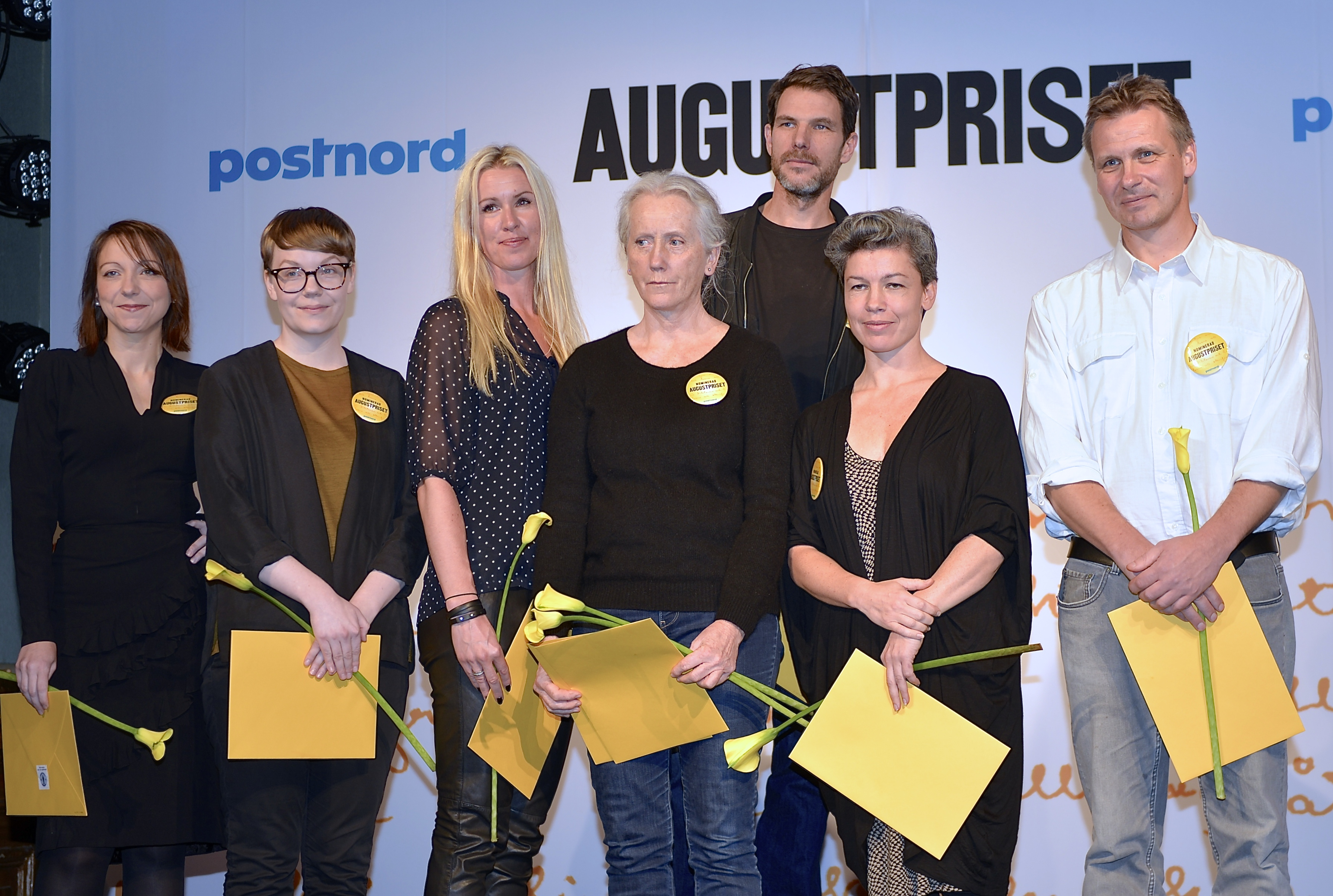 Nominated for the August Prize in the category of children's books in 2014. From left: Malin Axelsson, Klara Persson, Eva Staaf, Eva Lindström, Joar Tiberg, Sara Lundberg and Jakob Wegelius.